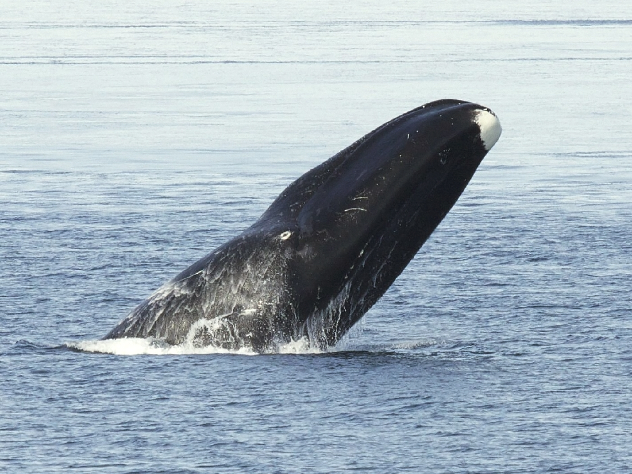 bowhead-1 Kate Stafford edit